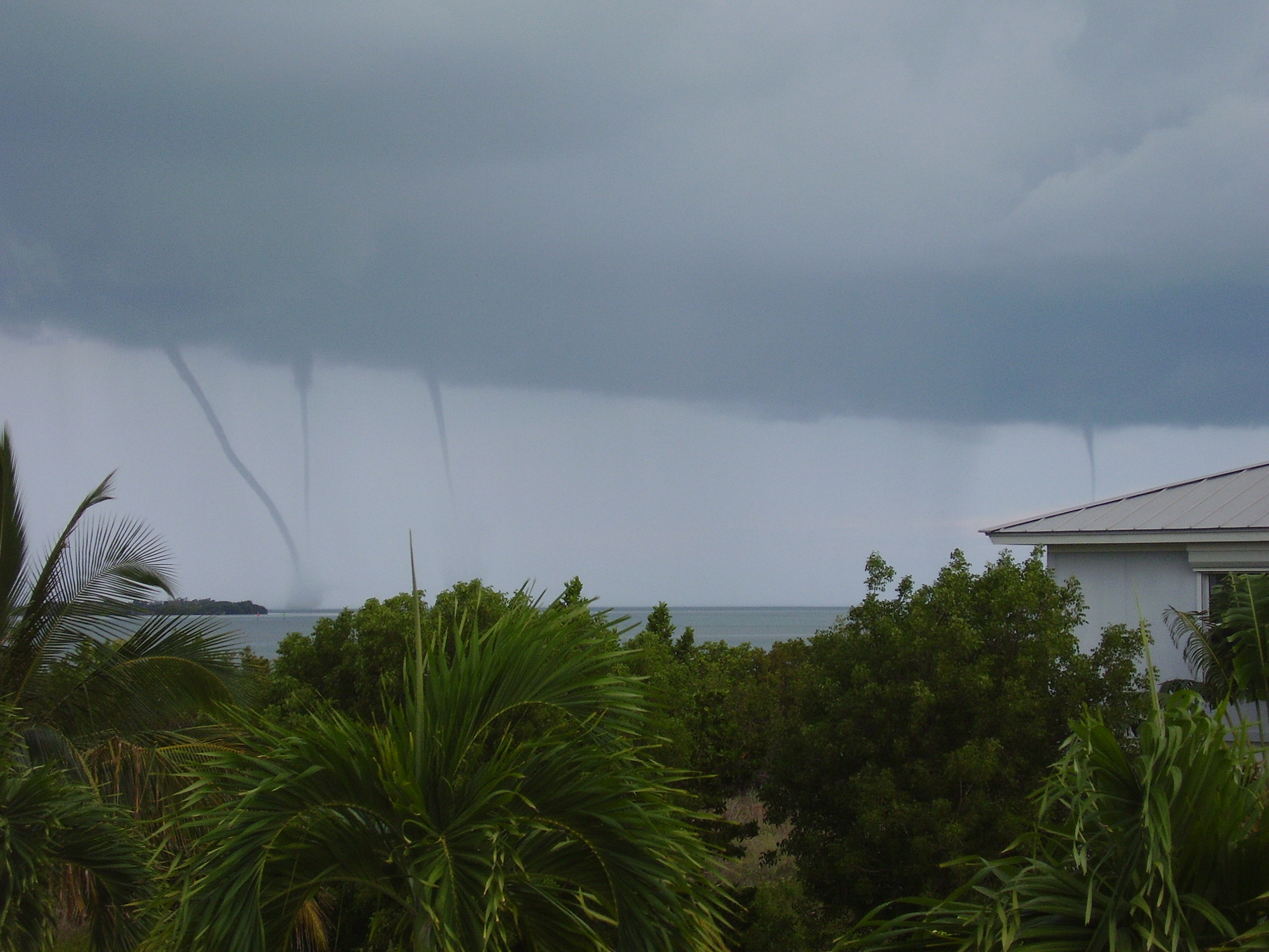 Four of five waterspouts seen South of Summerland Key at 6:37PM on June 5, 2009.